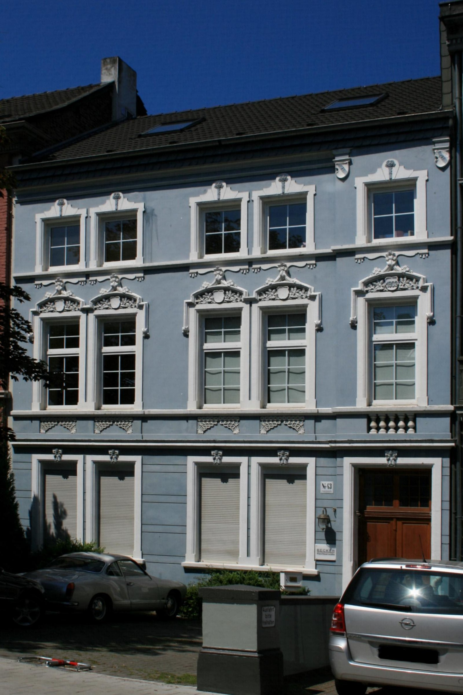 Cultural heritage monument No. R 047 in Mönchengladbach